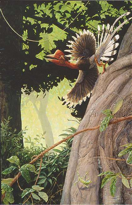 Great Helmeted Hornbill (Rhinoplax vigil) acrylic painting by Carel P. Brest van Kempen 30" x 20"